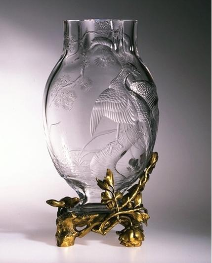 Baccarat Vase, 1890-1900 V&A Museum no. C.1242-1917 Techniques: Clear glass, with cut decoration, with ormolu mount Place: Lorraine, France Dimensions: Height 34.0 cm